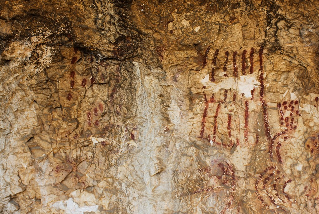 Forau del Cocho: covacho VII